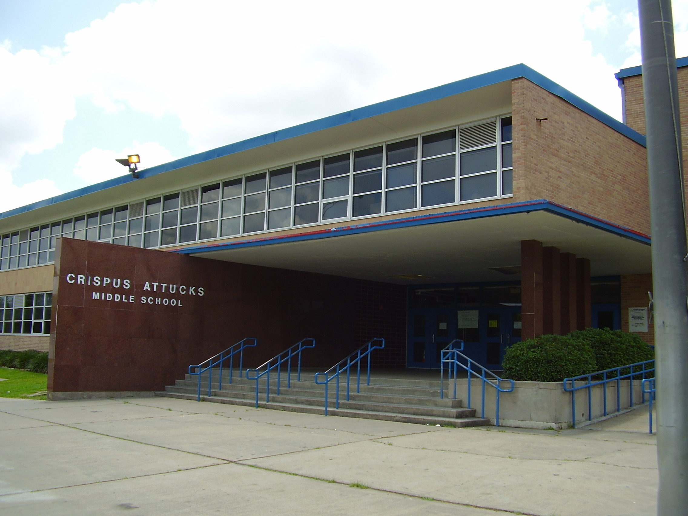 Crispus Attucks Middle School - the first building used by Evan E. Worthing High School